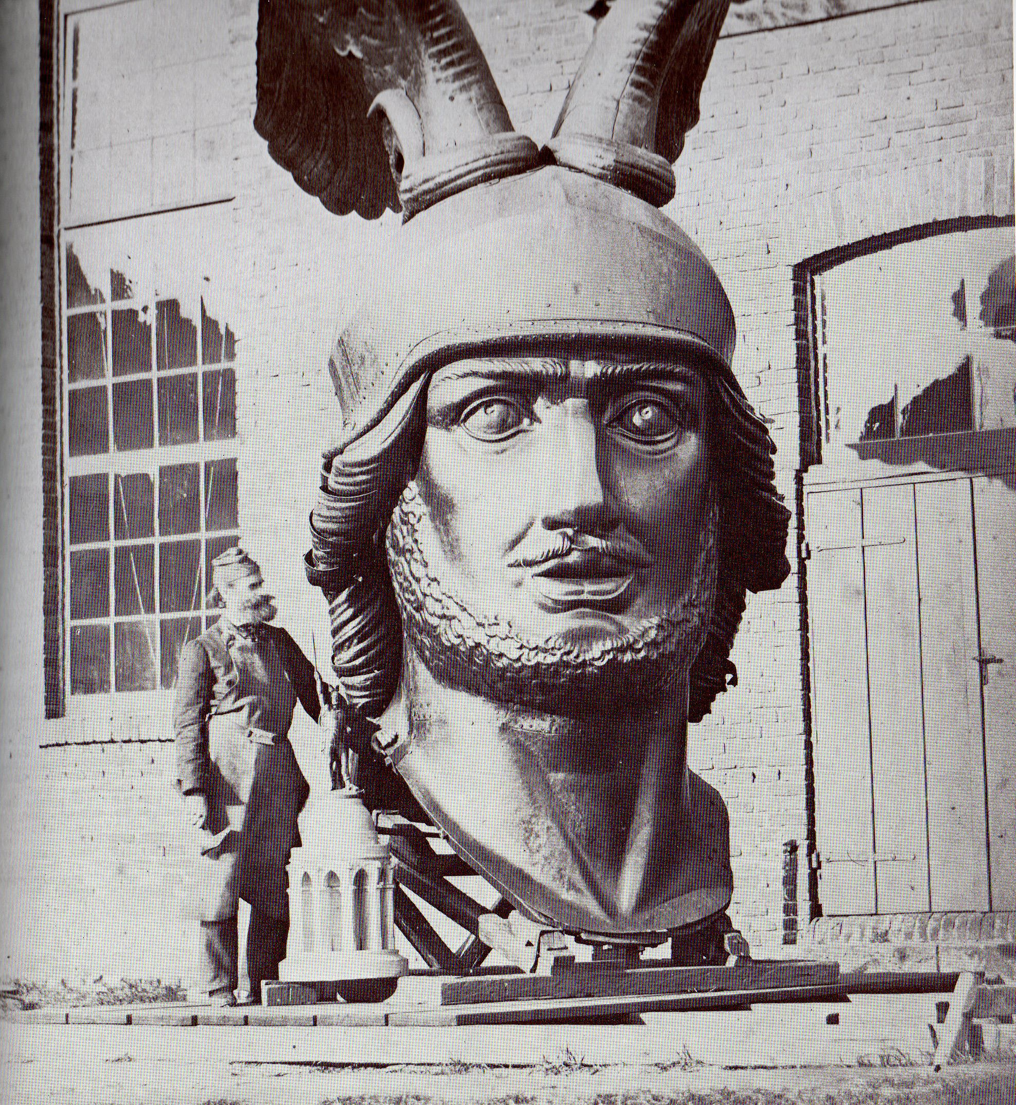 Ernst von Bandel with the head of the Hermanndenkmal. According to Ludwig Hoerner the photo was taken in the workshop of the sculptor in "Eisenstraße 1, Southeast of the railway station".